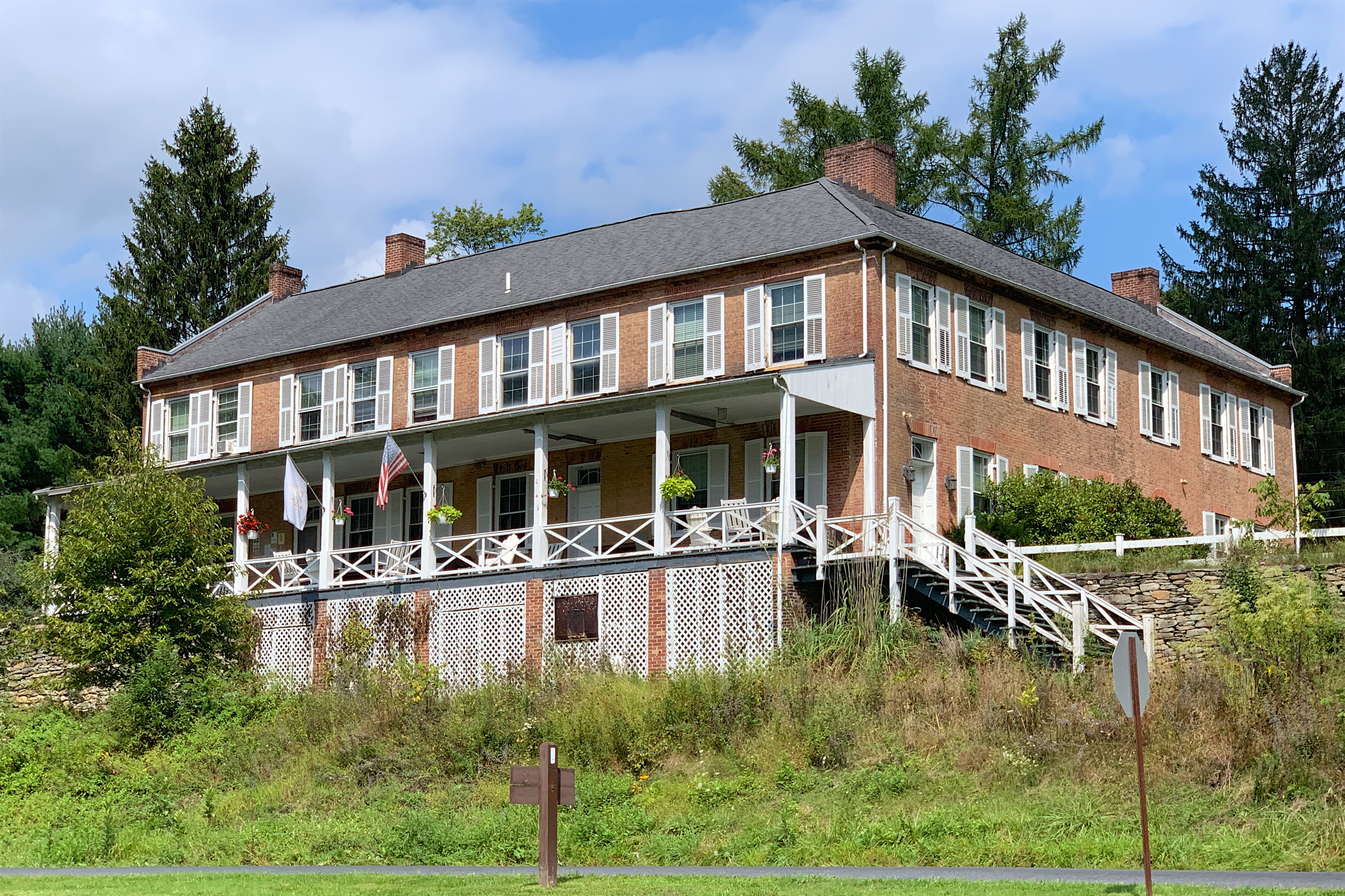 The ironmaster's mansion, also known as the Ege Mansion, of the Pine Grove Iron Works in Cumberland County, Pennsylvania. Impressive structure on the historic site.